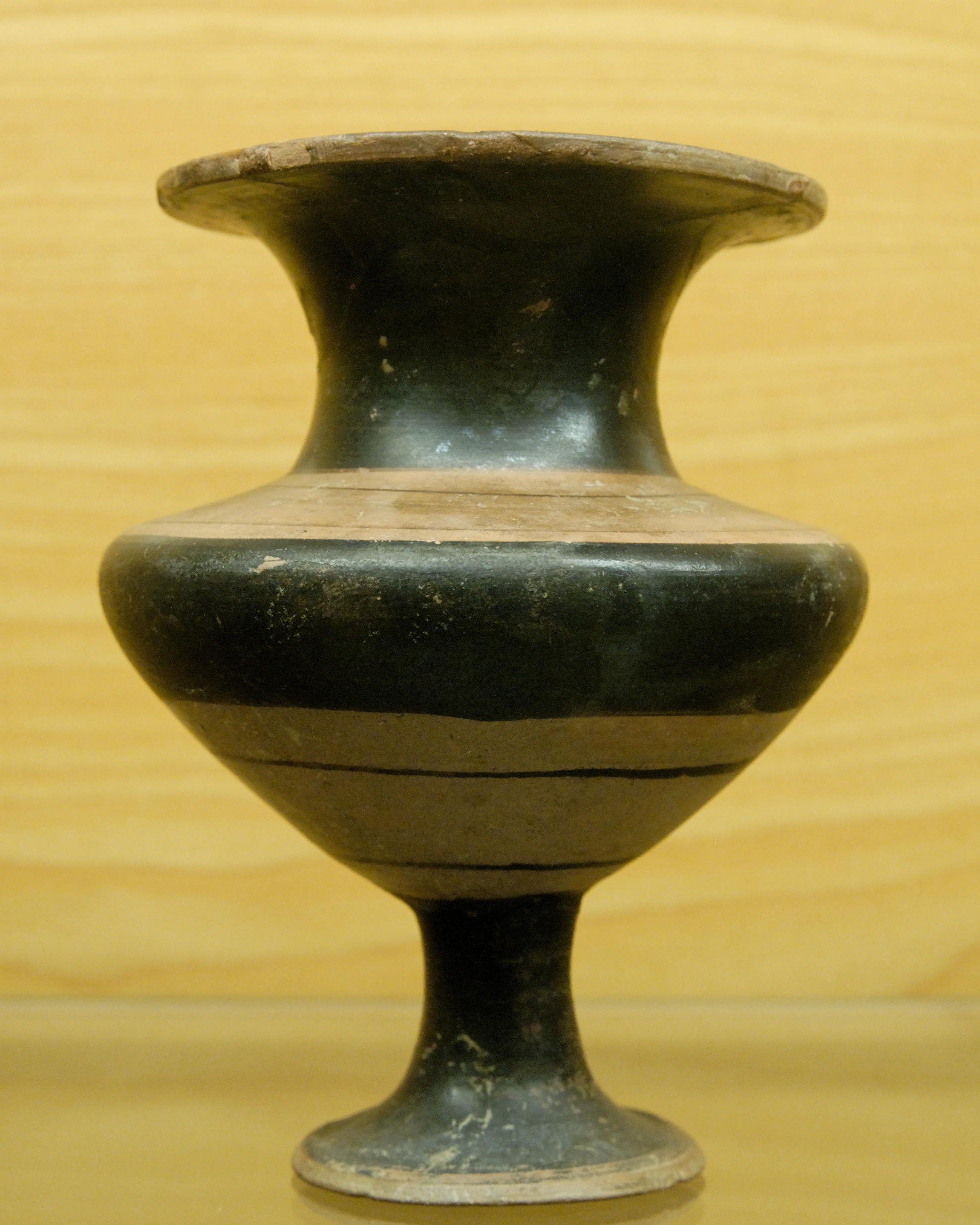 Ionian black-figure lydion with banded decoration, second half of the 6th century BC. From Gela, Sicily.